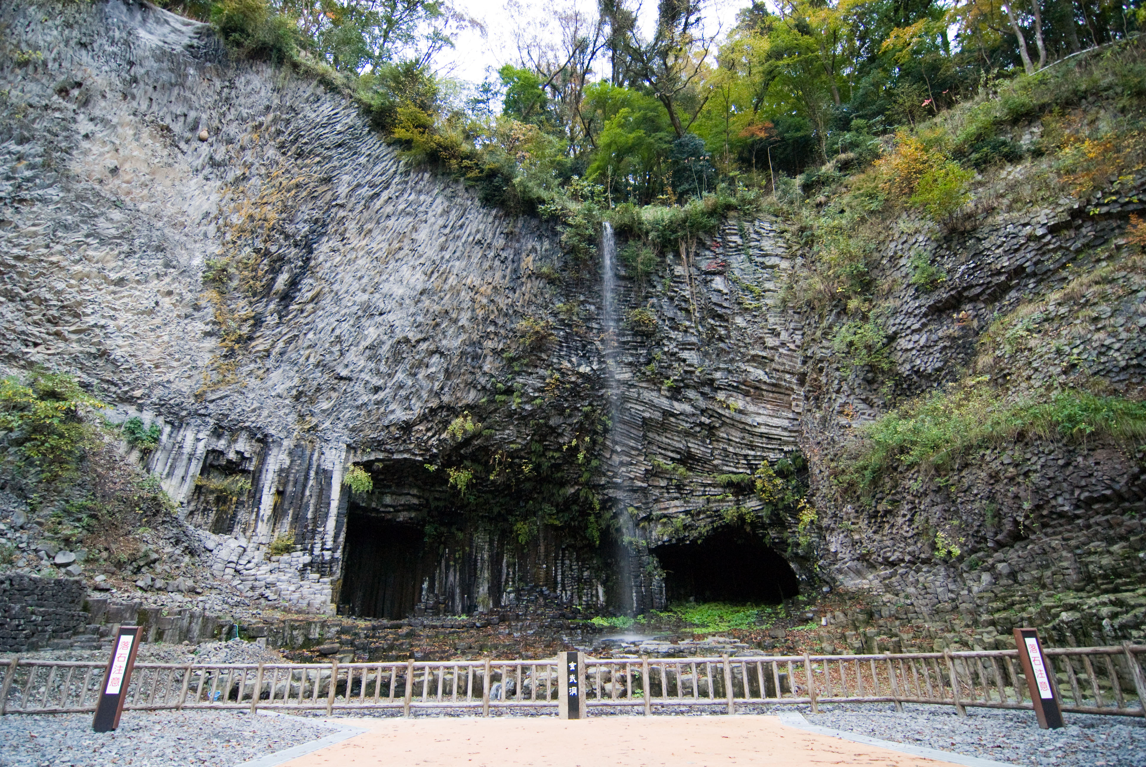 Genbudo cave in Toyooka,Hyogo Prefecture, Japan.